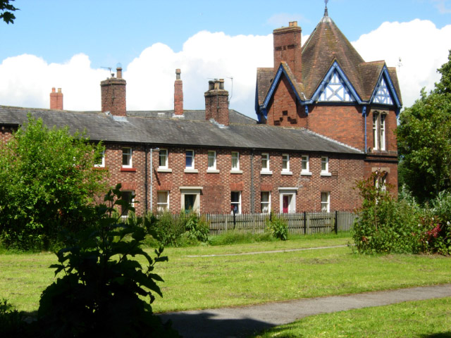 Bridge Terrace, Denton Holme Bridge Terrace was built in the 1850s for workers at the nearby Ferguson Bros textile mill. The distinctive building at the end of the terrace was a coffee tavern and reading room opened in 1882 by the company for its workforce.